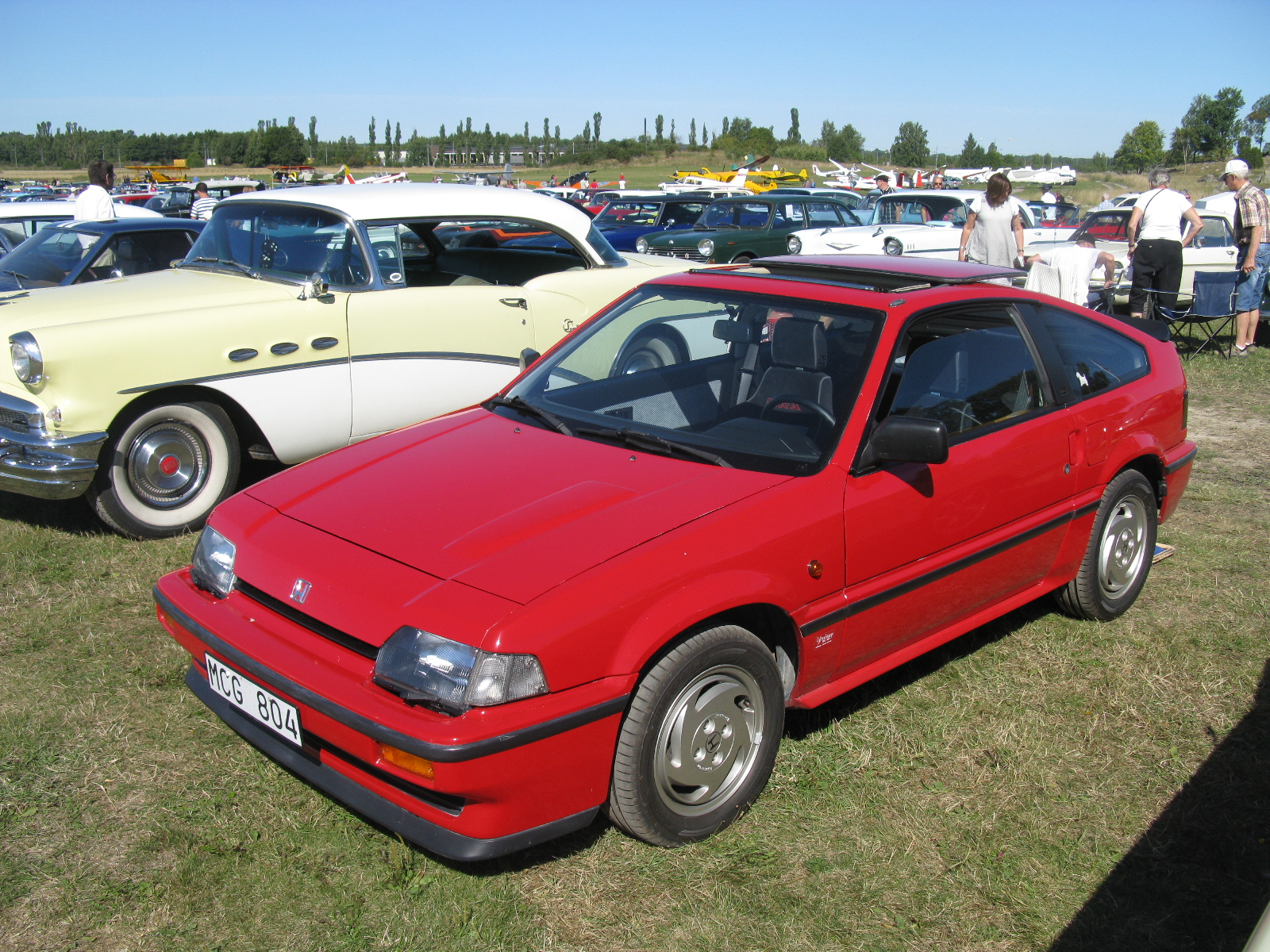 Honda Civic CRX